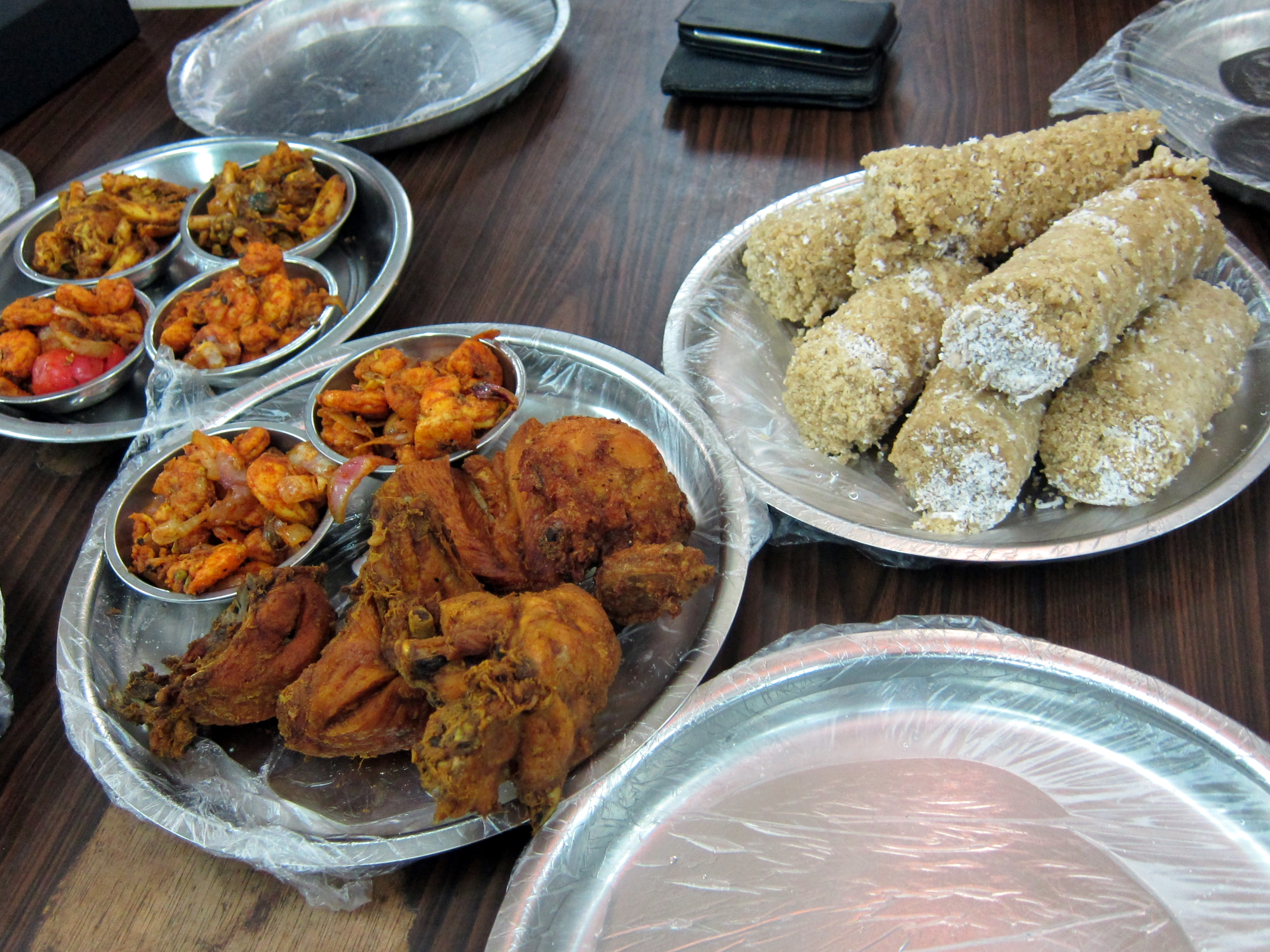 Sri Lankan Tamil food, Pittu and seafood in Jaffna, Sri Lanka